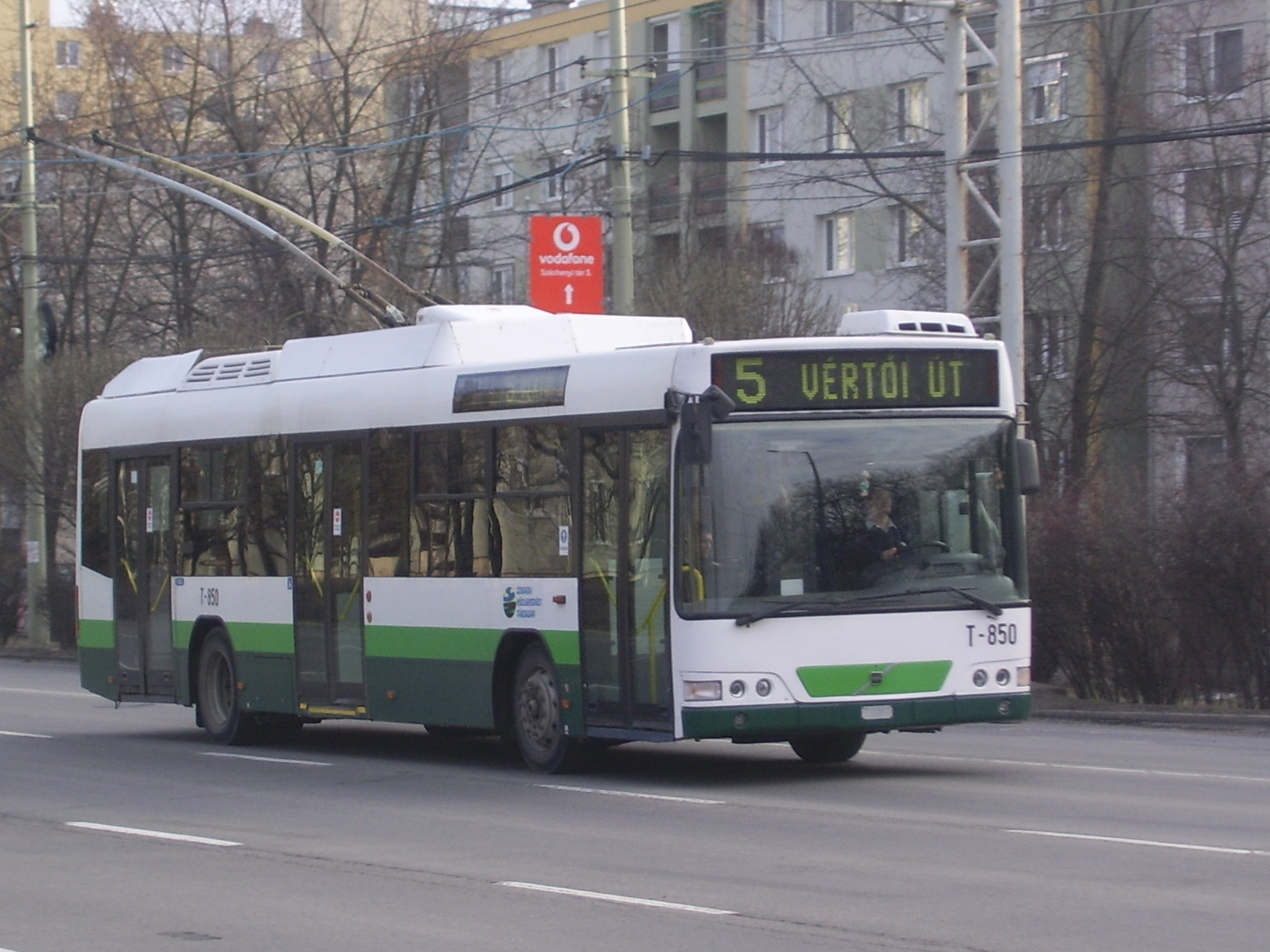 Trolley line 5 in Szeged.